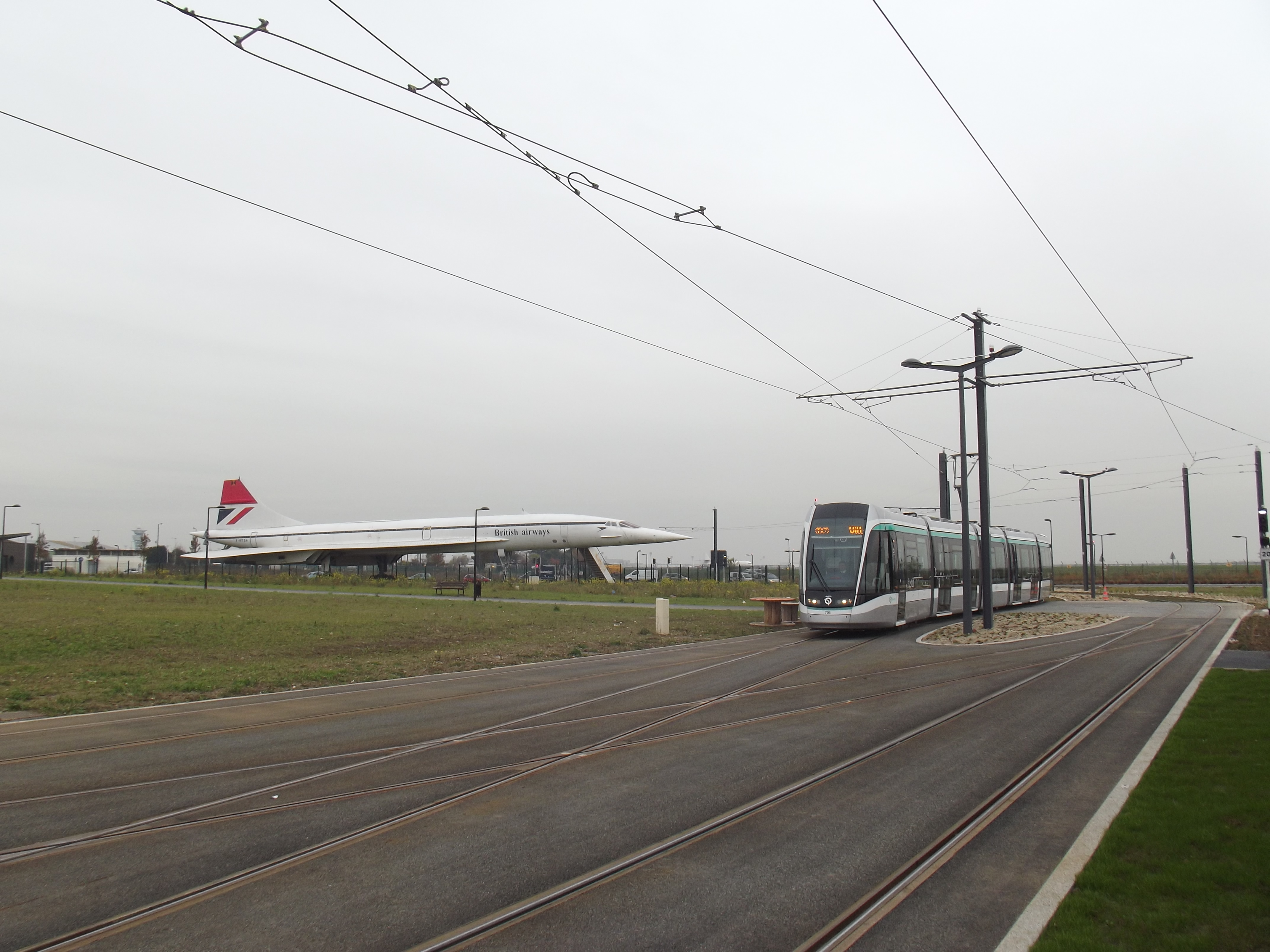 T7 tramline and Concorde